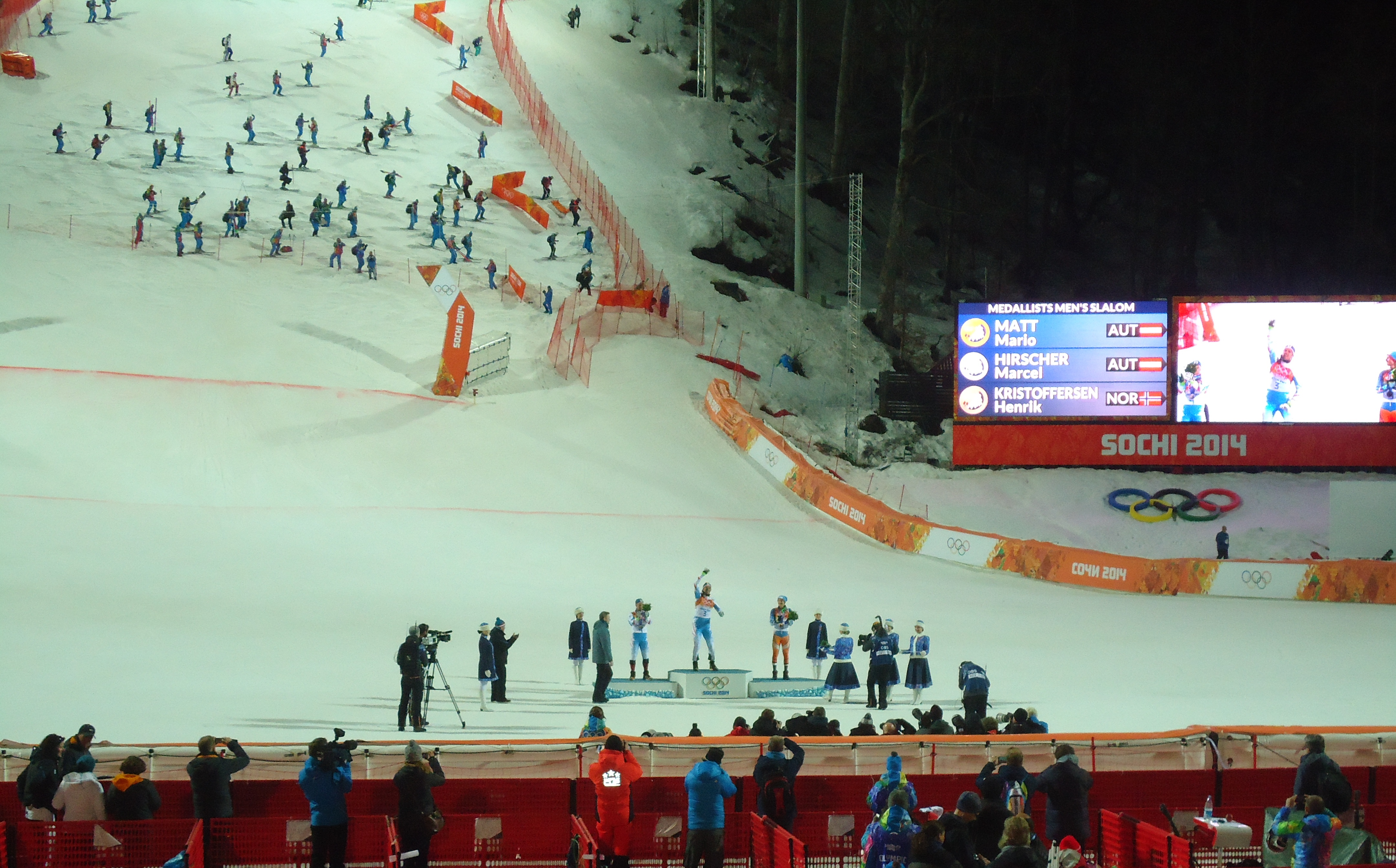 Men's Slalom Podium at the XXII Winter Olympic games. Rosa Khutor alpine ski resort, 22 February 2014.